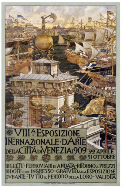 Poster for the 1909 Venice Biennale.